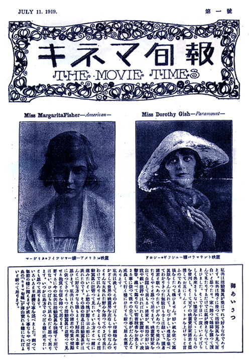 Cover of the 1st issue of the KinemaJunpo film magazine (July 11, 1919)